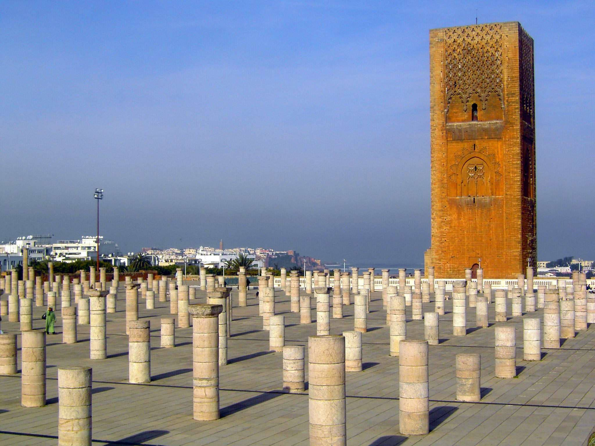 Hassan Tower or Tour Hassan (Arabic: صومعة حسان) is the minaret of an incomplete mosque in Rabat, Morocco. Begun in 1195, the tower was intended to be the largest minaret in the world along with the mosque, also intended to be the world's largest. In 1199, Sultan Yacub al-Mansour died and construction on the mosque stopped. The tower reached 44 m (140 ft), about half of its intended 86 m (260 ft) height. The rest of the mosque was also left incomplete, with only the beginnings of several walls and 200 columns being constructed. The tower, made of red sandstone, along with the remains of the mosque and the modern Mausoleum of Mohammed V, forms an important historical and tourist complex in Rabat. Instead of stairs, the tower is ascended by ramps. The minaret's ramps would have allowed the muezzin to ride a horse to the top of the tower to issue the call to prayer. __ This is a FREE photo! Yes, all the photos in my gallery are free! :) You can download it at full resolution (check the “all sizes” option) and do whatever you want with it: share it, adapt it and/or combine it with other material and distribute the resulting works. Please give photo credits to “Carlos ZGZ” and put a link to this page. I’ll be very happy to know that this photo has been useful to someone, so don’t hesitate to tell me about your use (and I will place here a link to it if you wish)! __ ¡Esta es una foto LIBRE! ¡Sí, todas las fotos de mi galería son libres! :) Puedes descargártela en plena resolución (usa la opción “all sizes”) y hacer lo que quieras con ella: compartirla tal cual, modificarla a tu gusto y/o combinarla con otro material y distribuir el resultado. Por favor, si utilizas esta foto dale el crédito a “Carlos ZGZ” y coloca un enlace a esta página Me hace mucha ilusión saber que una de mis fotos le ha servido a alguien. Así que si es tu caso, ¡no dudes en decírmelo! (y si quieres, pondré un enlace a tu proyecto aquí).